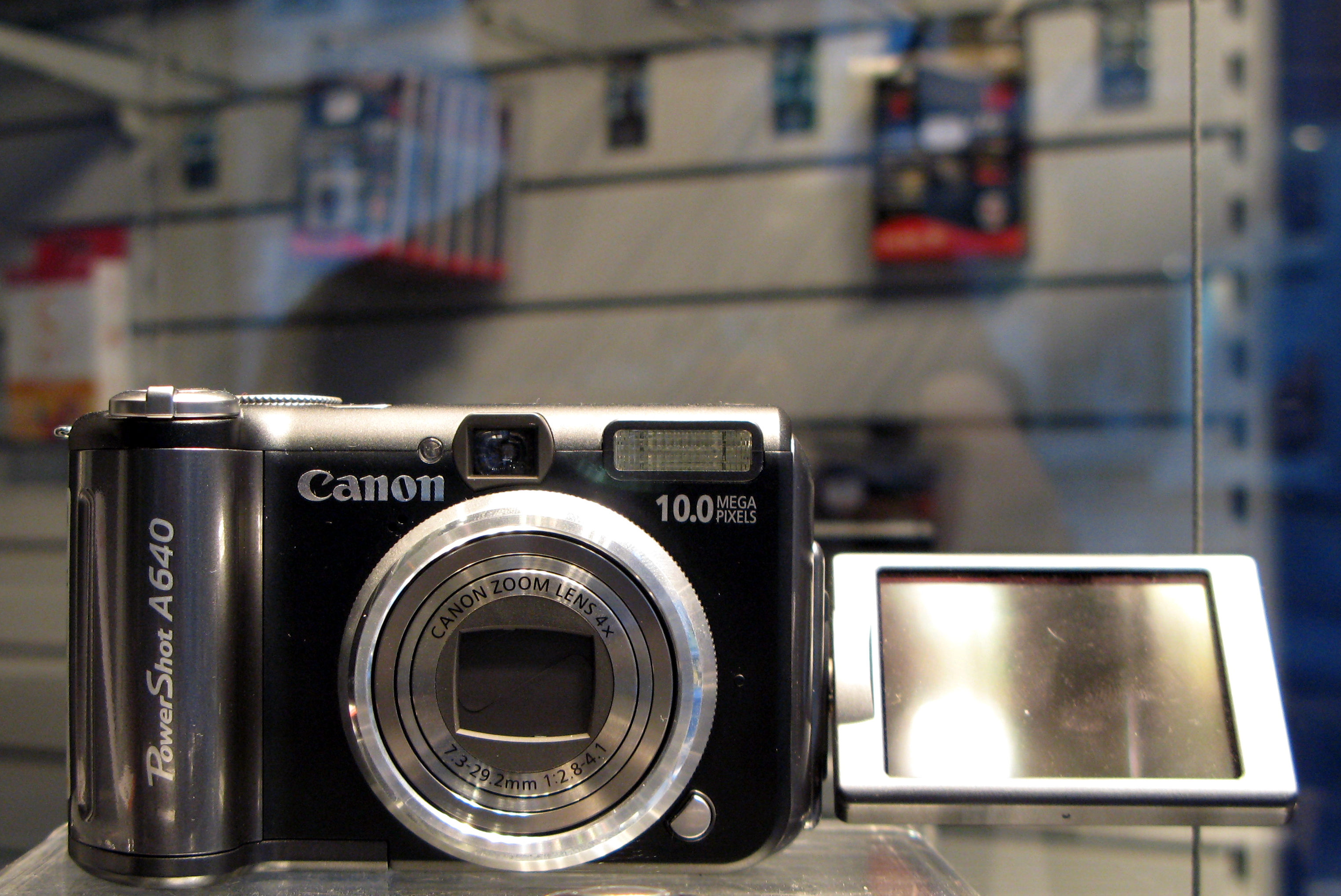 Canon PowerShot A640